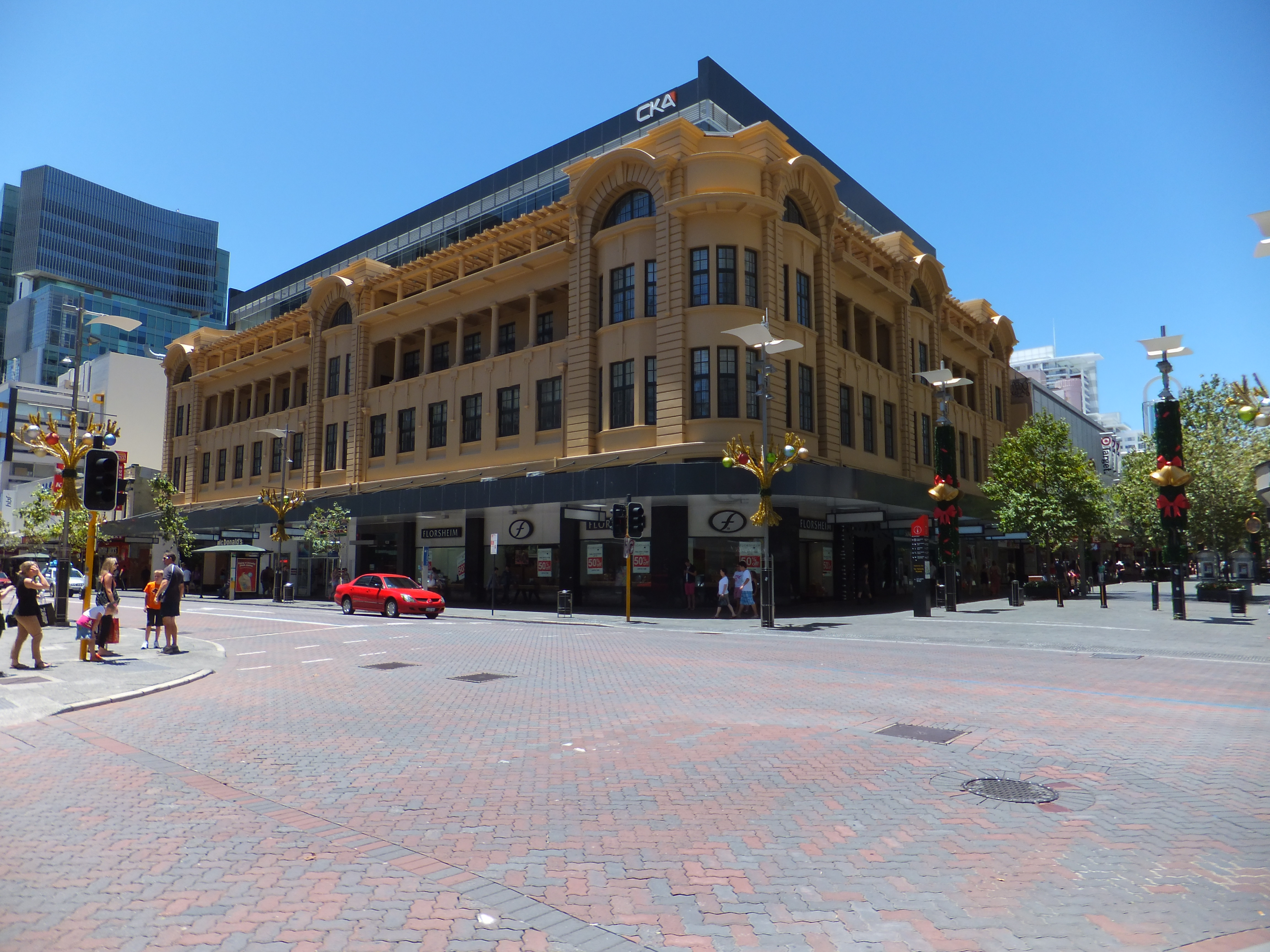 A heritage listed building in Perth, Western Australia